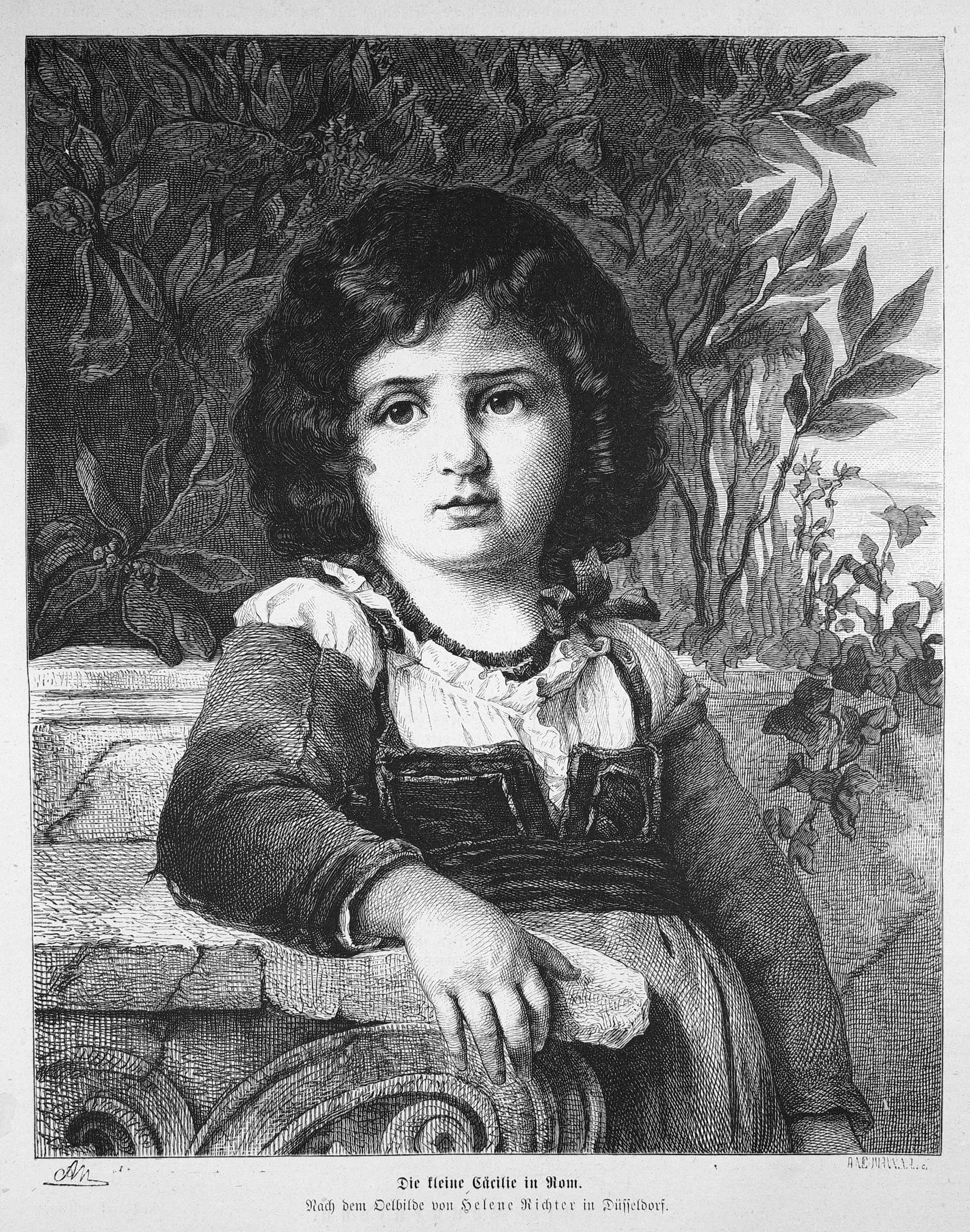 caption: "Die kleine Cäcilie in Rom. Nach dem Oelbilde von Helene Richter in Düsseldorf."